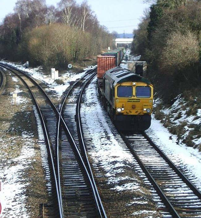 Freight train from Nuneaton approaching Water Orton station. The line off to the left goes towards Tamworth